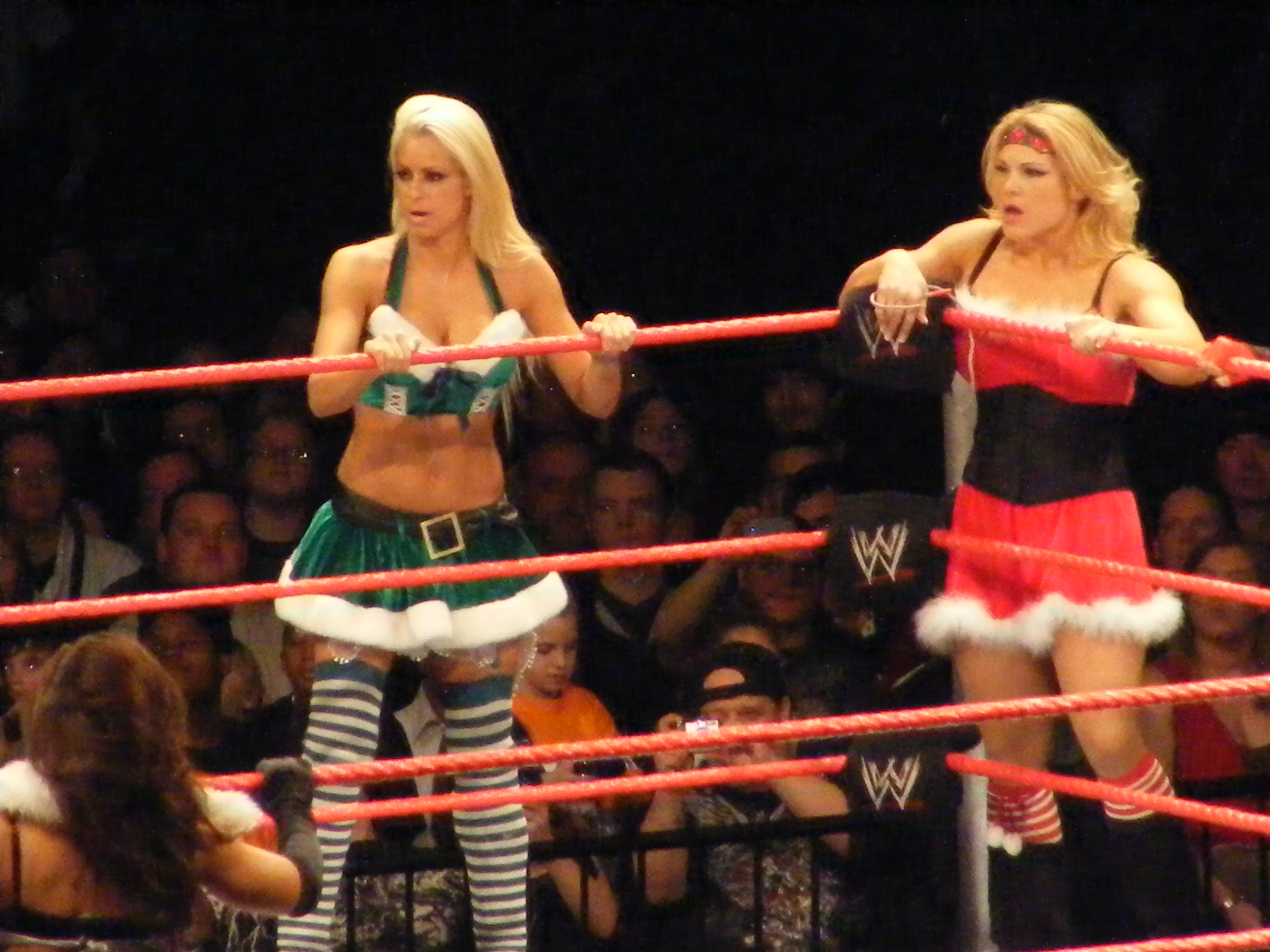 Professional wrestlers Maryse (right) and Beth Phoenix (left) in a Santa's Little Helper match at a WWE show in Syracuse on December 30, 2009.